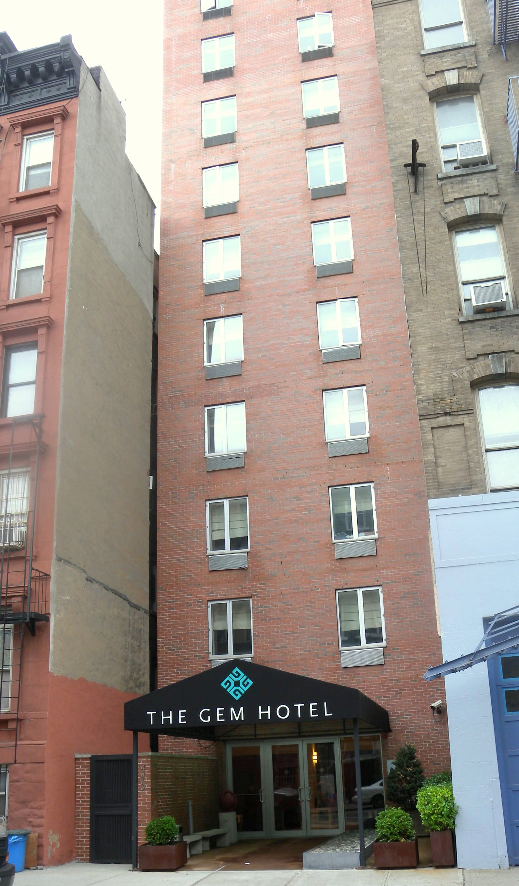 Looking north at narrow hotel on a cloudy afternoon. ZIP 10018.